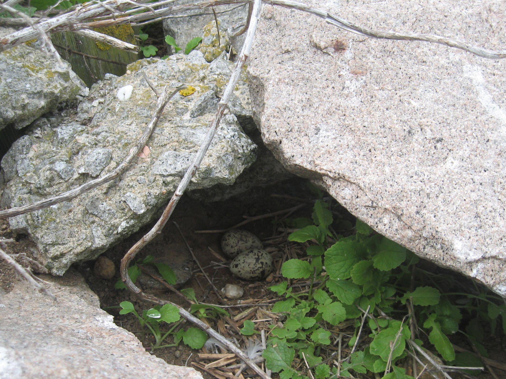 Sterna dougallii eggs. Very stealthy, those roseates.